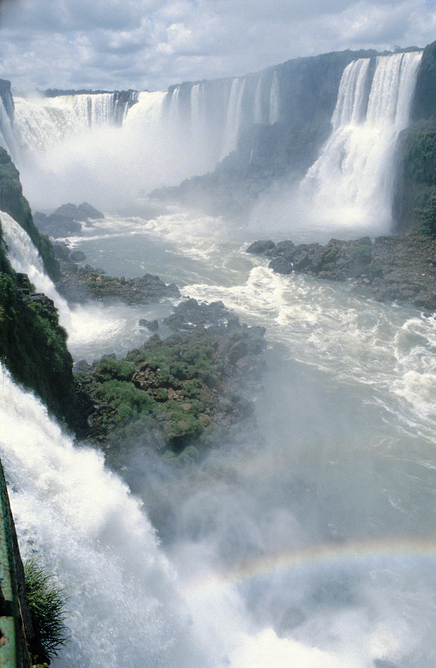 Iguazu Falls, in Misiones (Argentina).